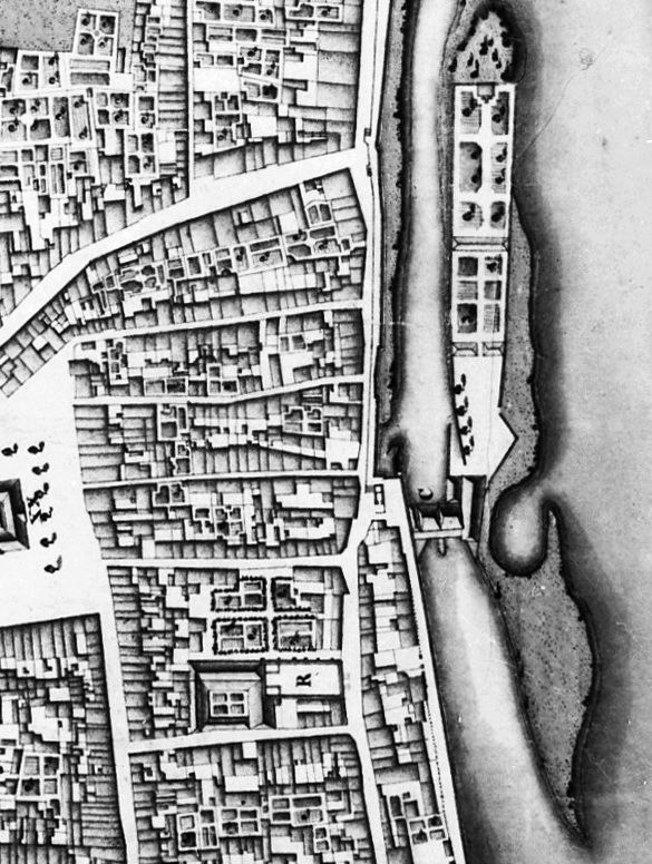 Maastricht, the Netherlands. Detail of a map showing a part of the city in 1749. The map by French military engineer Jean-Baptiste Larcher d'Aubencourt was used to built the Maquette of Maastricht (1752), now in the Musée de Beaux Arts in Lille, France. Here a section on the leftbank of the river Meuse with the Markt (market square; left) and the Maasmoleneiland.